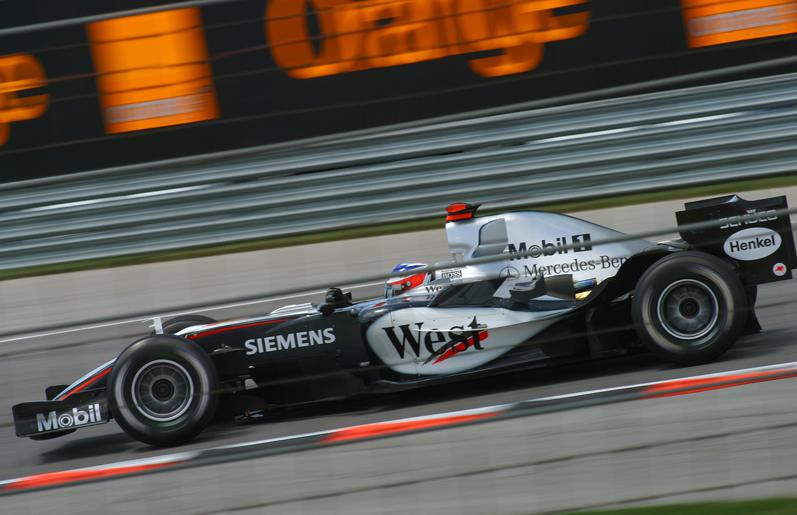 Kimi Räikkönen driving for McLaren at the 2005 United States Grand Prix.